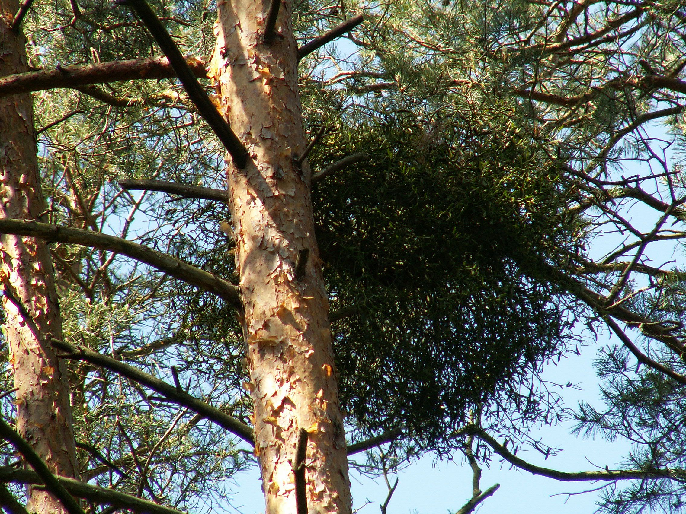 Viscum laxum on Pinus sylvestris (Goleniów, NW Poland)